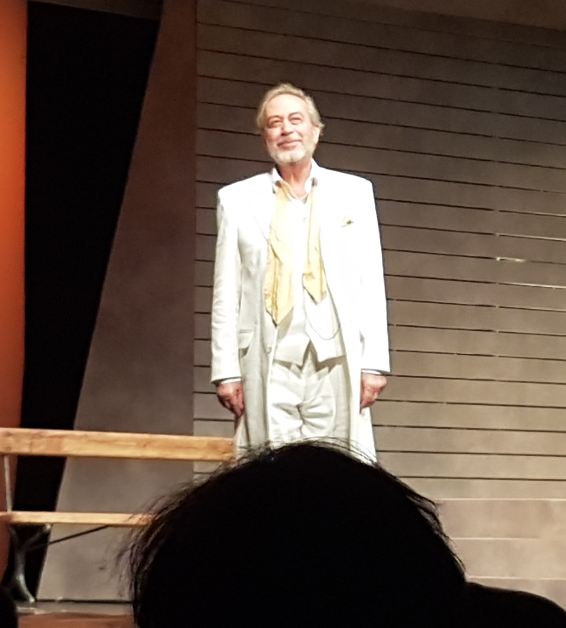 Grigoris Valtinos, greek actor as Halvard Solness in Master Solnes played at Ilissia theatre, Athens, Oct. 2019